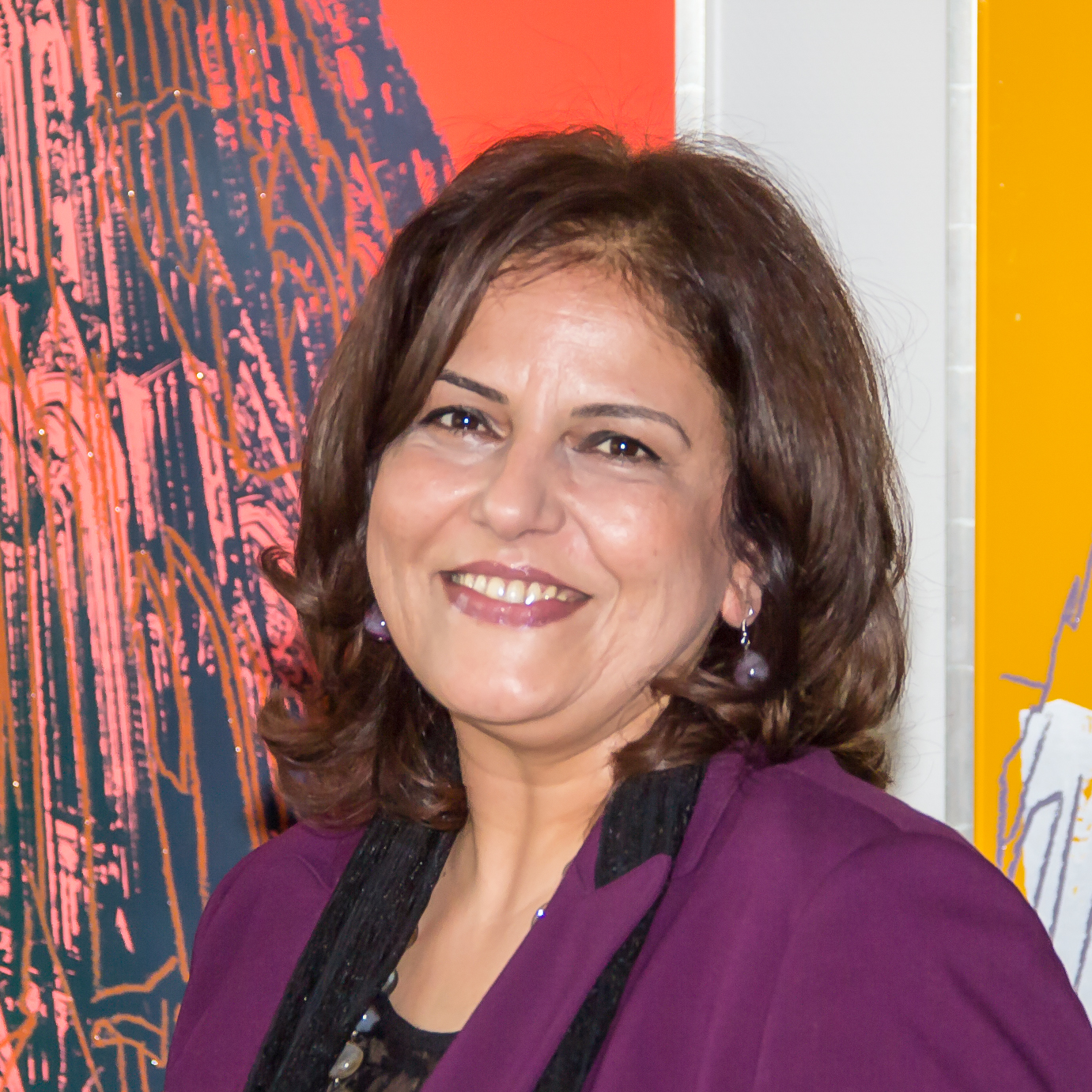 Visit of the ambassador of Palestine to Germany Dr. Khouloud Daibes in the town hall of Cologne